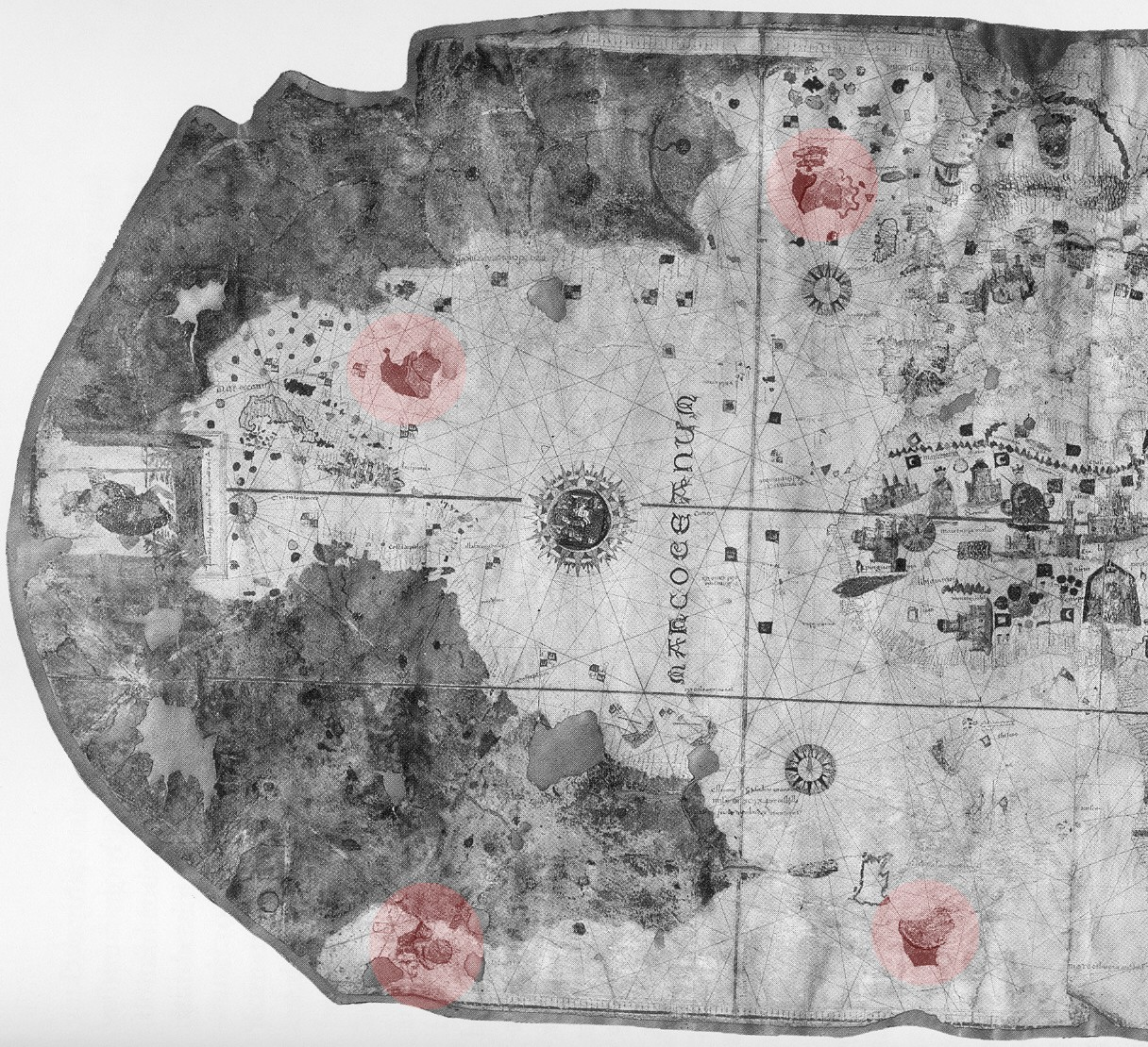 Position of the four "blowers" in the Atlantic Ocean of the map of Juan de la Cosa.